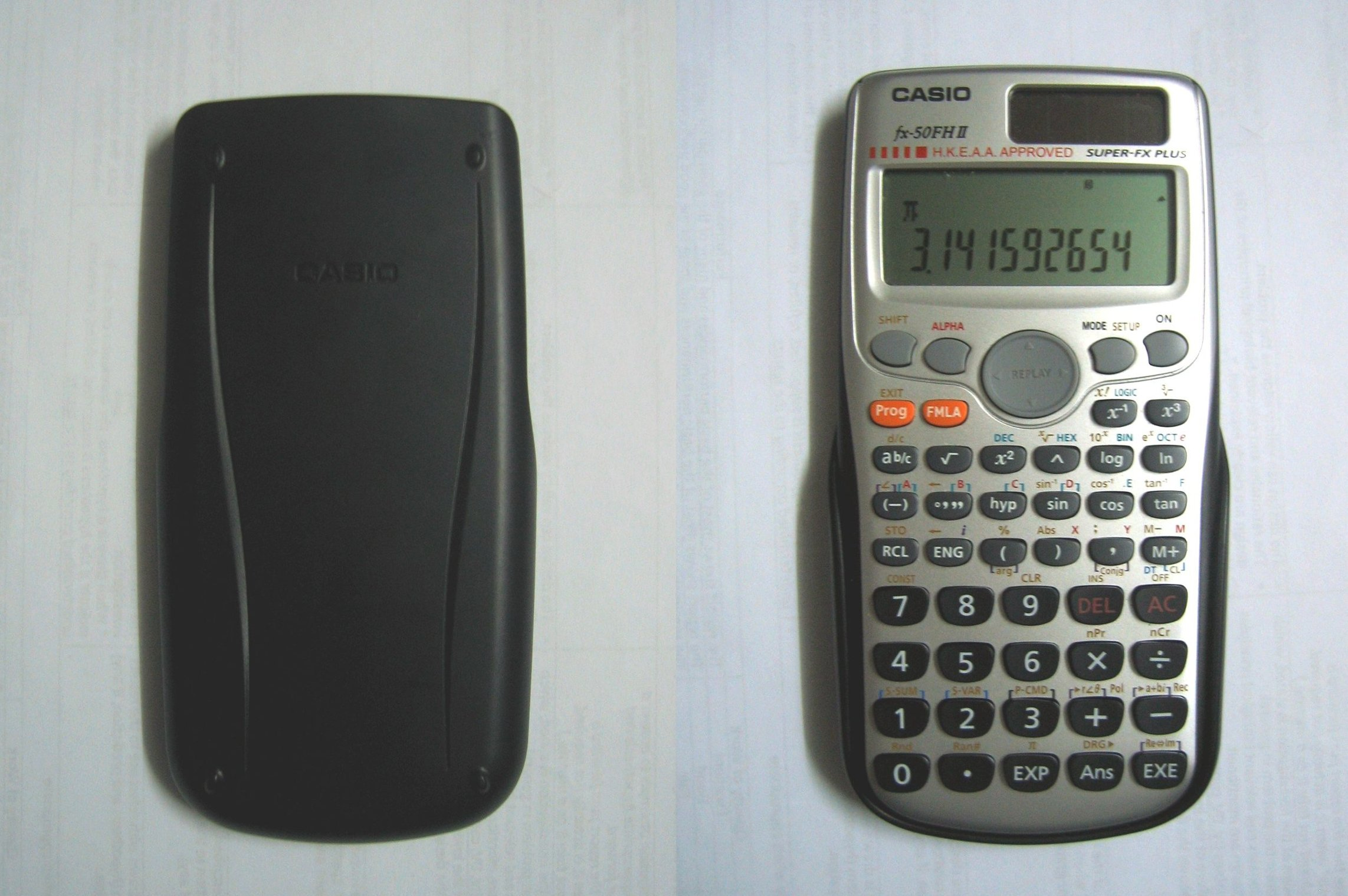 Casio fx-50FH II with cover (left) and without cover (right)